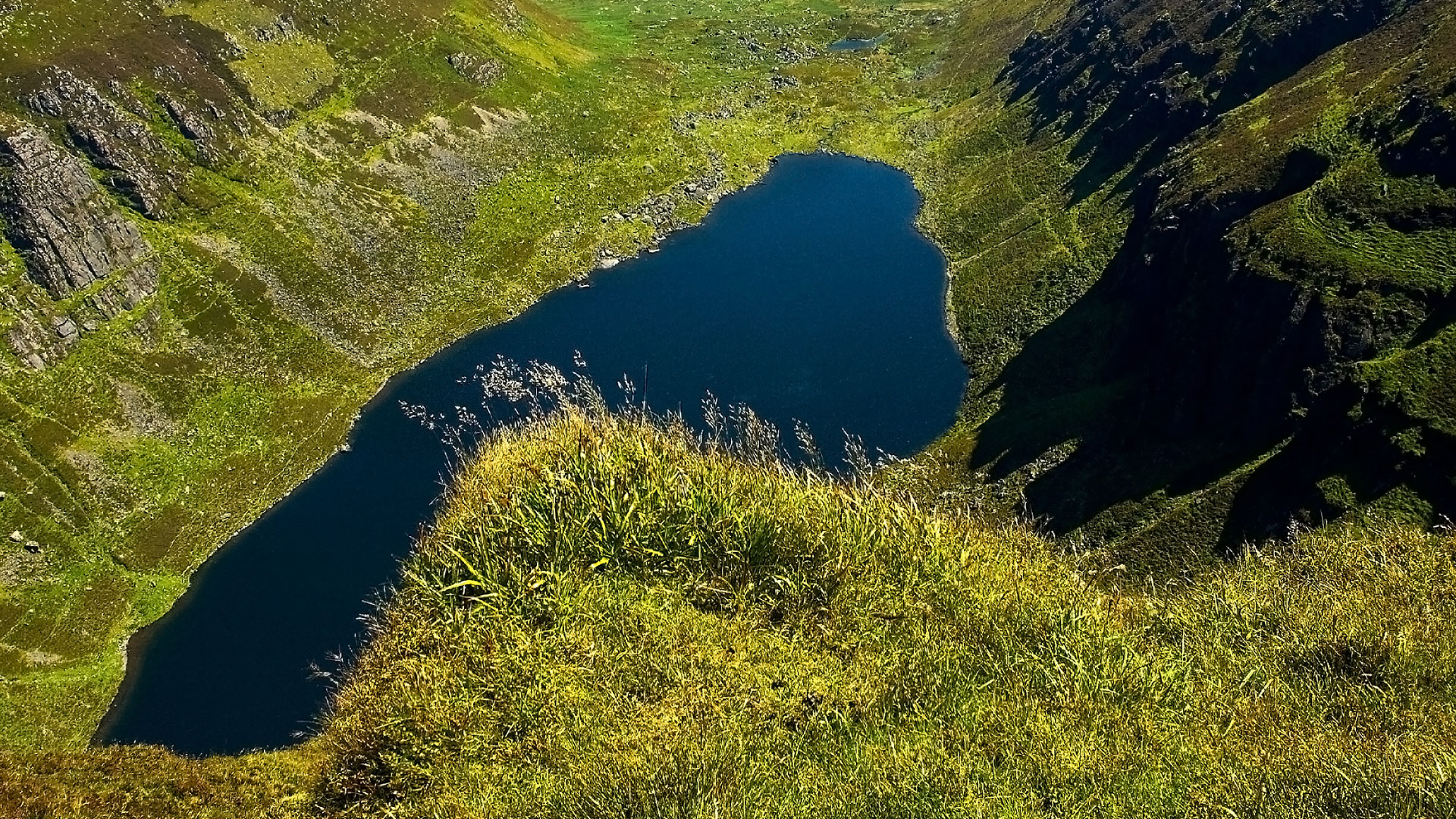 Comeragh Mountains Lake